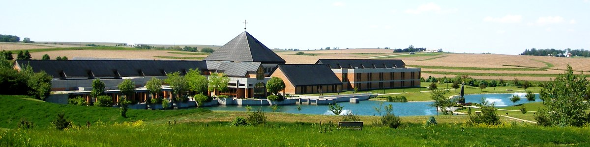 A photograph of Saint Benedict Center, a retreat house managed by the Benedictine monks of Christ the King Priory, Schuyler, NE, USA.